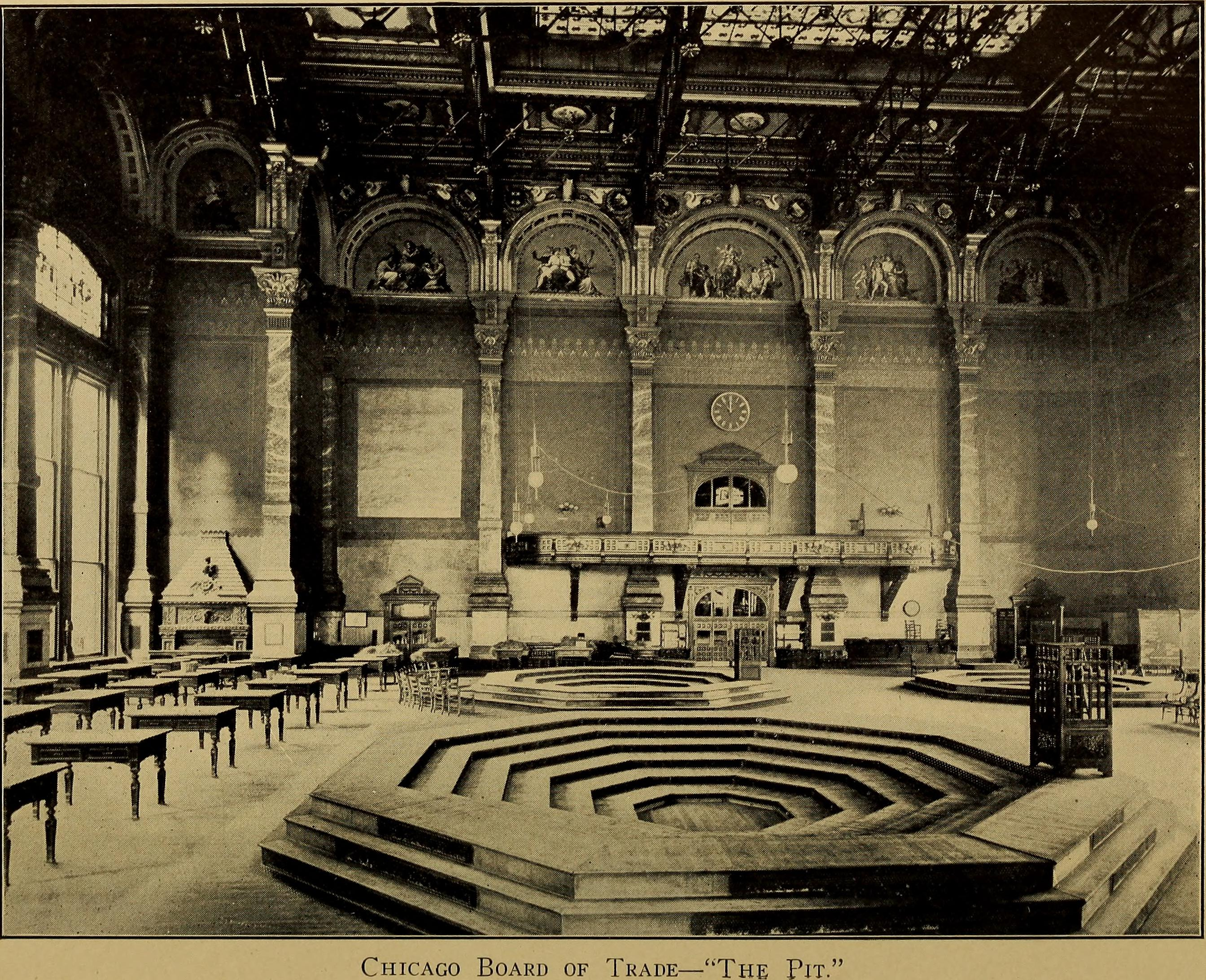 Title: Life and character of William Taylor Baker, president of the World's Columbian exposition and of the Chicago Board of trade Year: 1908 (1900s) Authors: Baker, Charles H. (Charles Hinckley), b. 1864 Subjects: Baker, William Taylor, 1841-1903 Electric power-plants Publisher: New York, The Premier press Text Appearing Before Image: ' Text Appearing After Image: Chapter V CHICAGO BOARD OF TRADE 1890-1897 CHICAGO, by virtue of her geographical loca-tion naturally in her early history became thegrain centre of the United States. The greatgrain producing areas of the country extendedhundreds of miles out from her borders andthree-fourths around her horizon. She was situ-ated at the head of navigation on the GreatLakes and was in the line of railroad develop-ment. It was only logical that grain and trans-portation converging at that point, should result ina trade mart springing up there. As the outlyingagricultural districts were put under cultivation moreand more, it came about that a small colony of grainmerchants and traders developed and became an im-portant feature of the business community. They hadno particular organization. The farmers came infrom the fields and sold their produce to commissionmerchants or warehousemen, or some times these mer-chants went out and met the farmer upon his ownpremises, viewed the grain growing in his fields